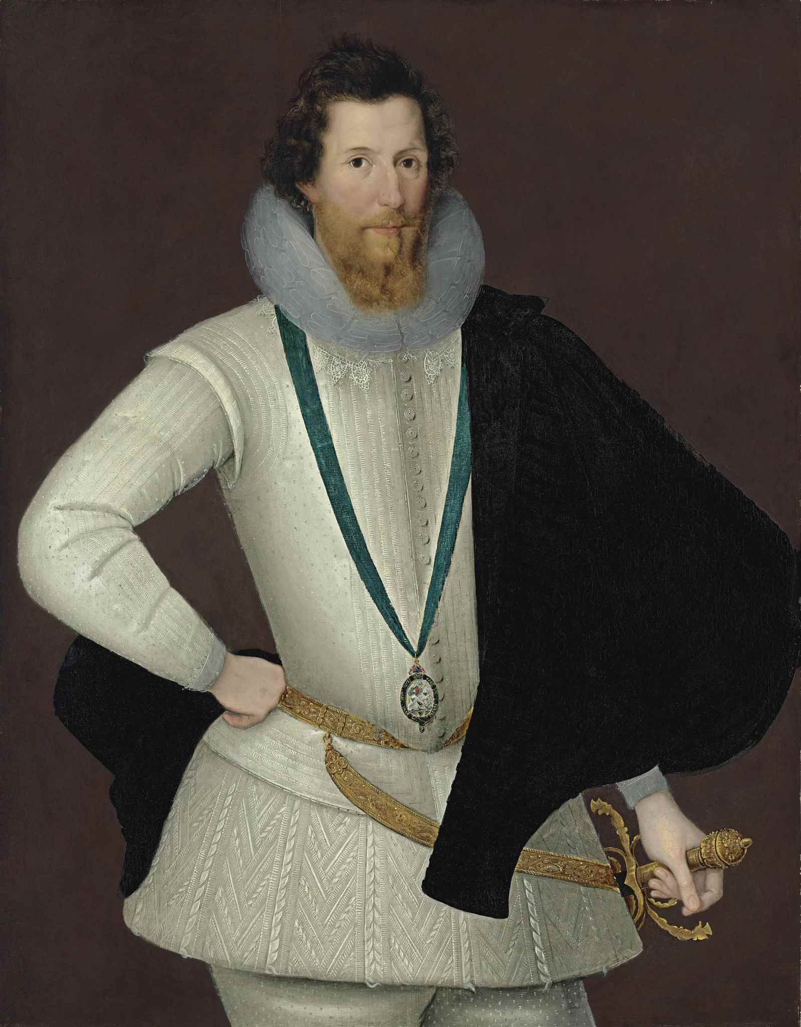 Portrait of Robert Devereux, 2nd Earl of Essex, based on the full-length portrait at Woburn Abbey.